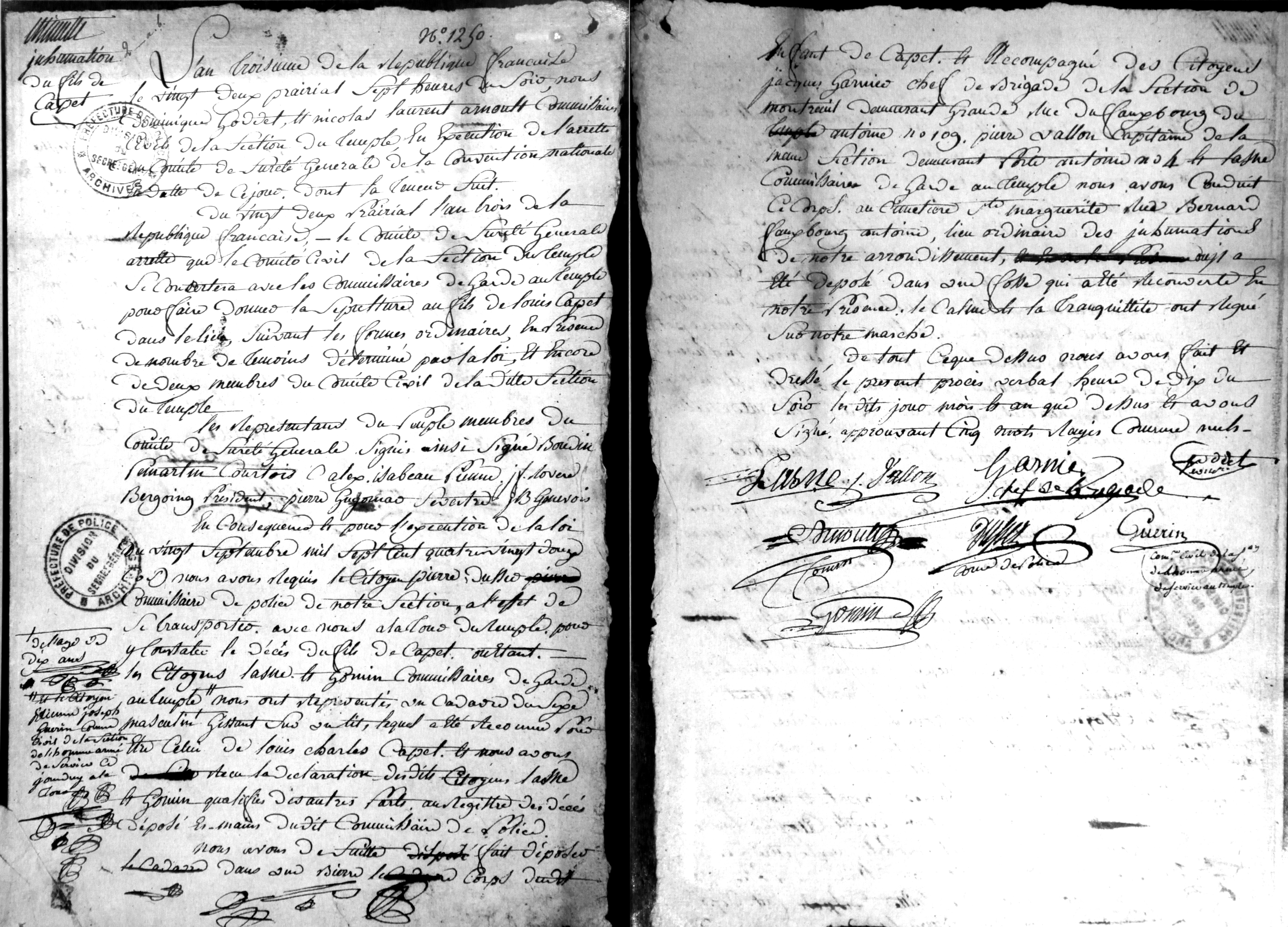 Photograph of certificate of burial of "Louis-Charles Capet", known as Louis XVII of France